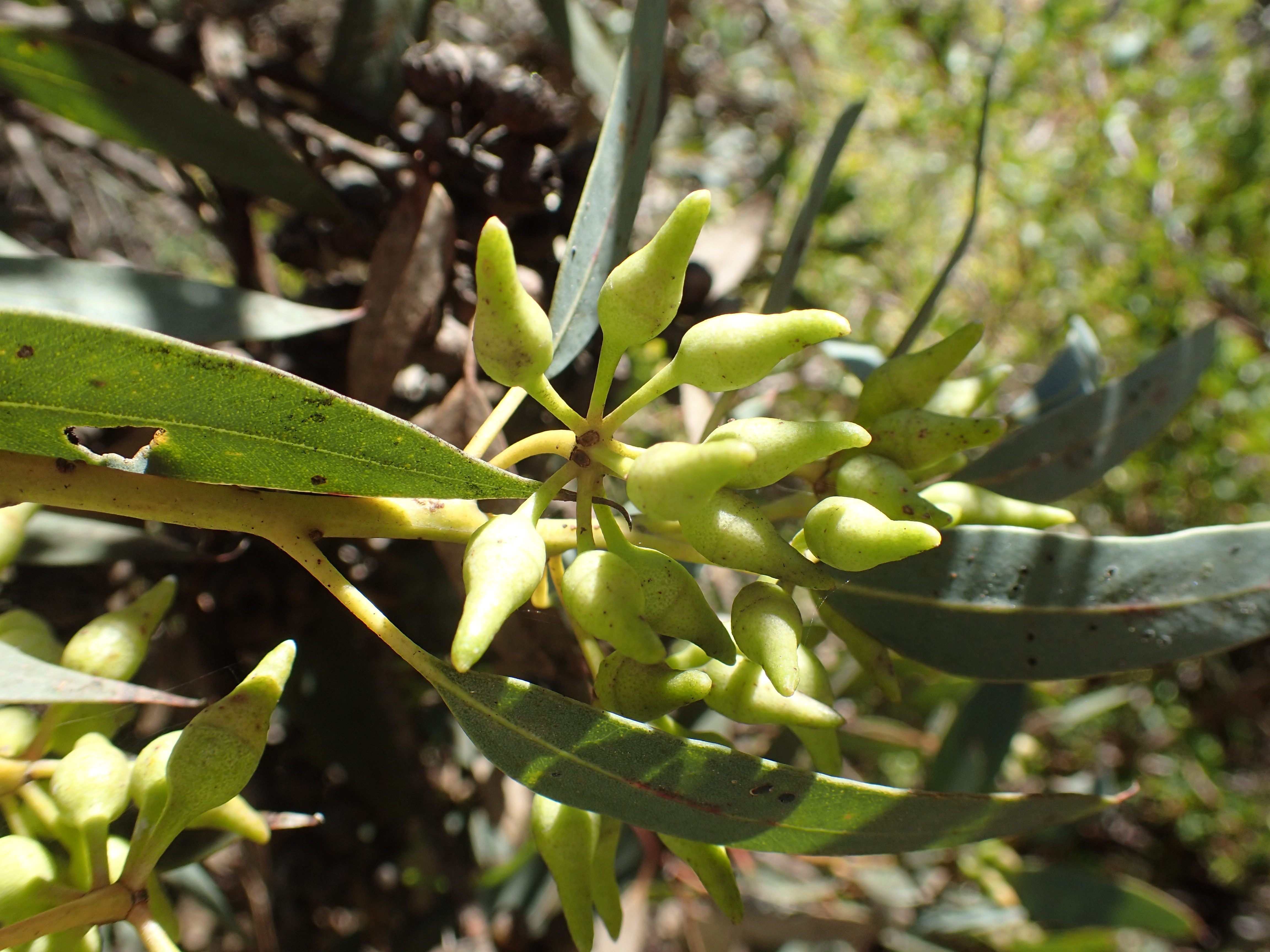 flower buds of Eucalyptus falcata in Kings Park Perth